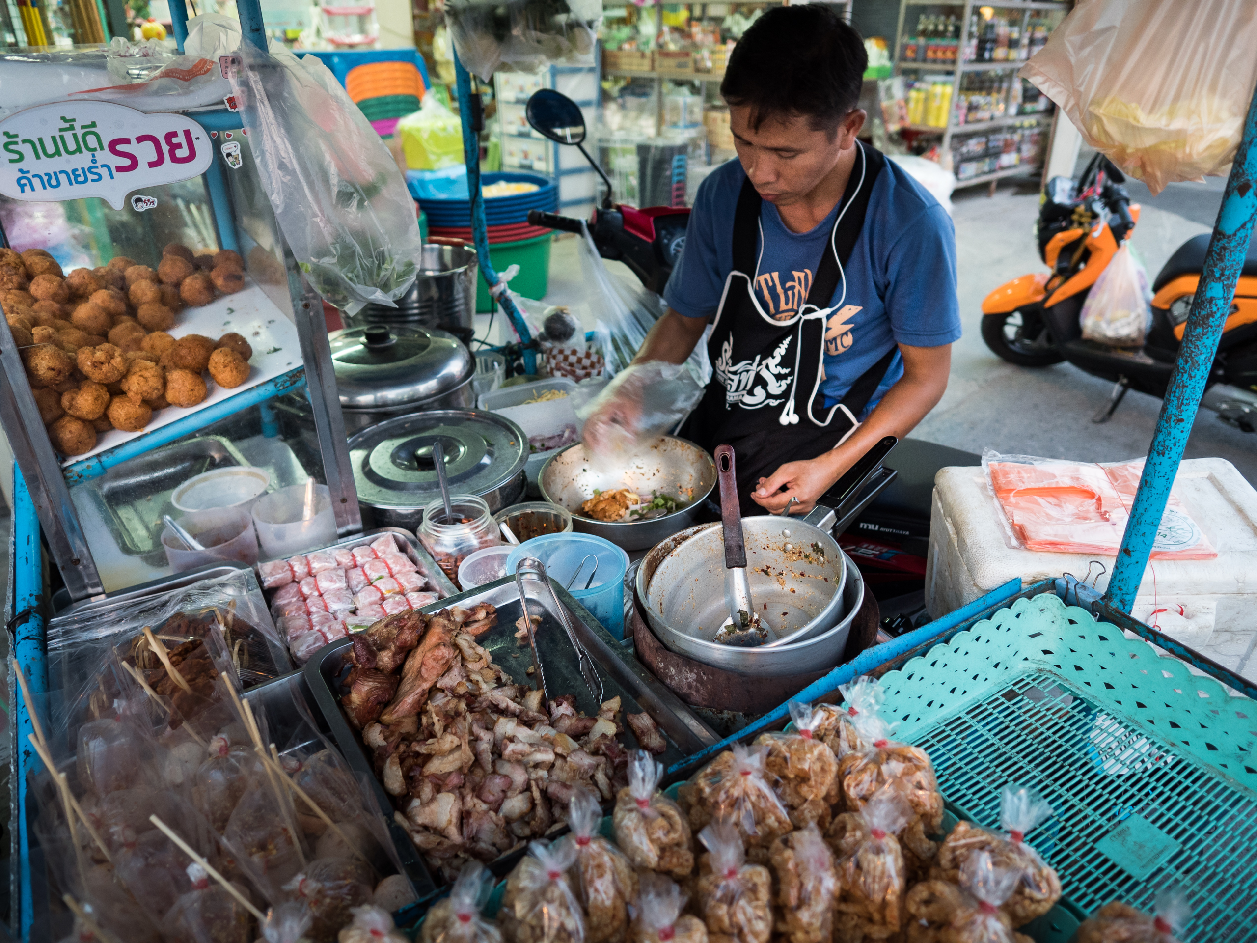 A food vendor with his cart in Ayutthaya. This man is specialised in making naem khluk/yam naem khao thot.